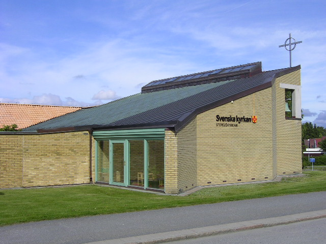 Stensjö Church in Mölndal, Sweden